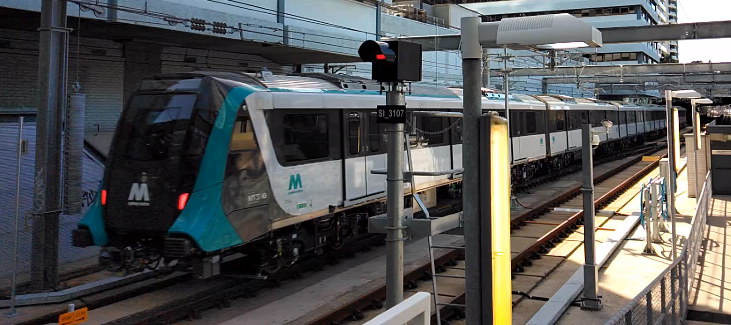 Sydney Metro train testing at Chatswood on the 18th of April 2019.